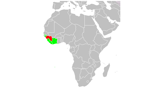 West African Initiative Participation